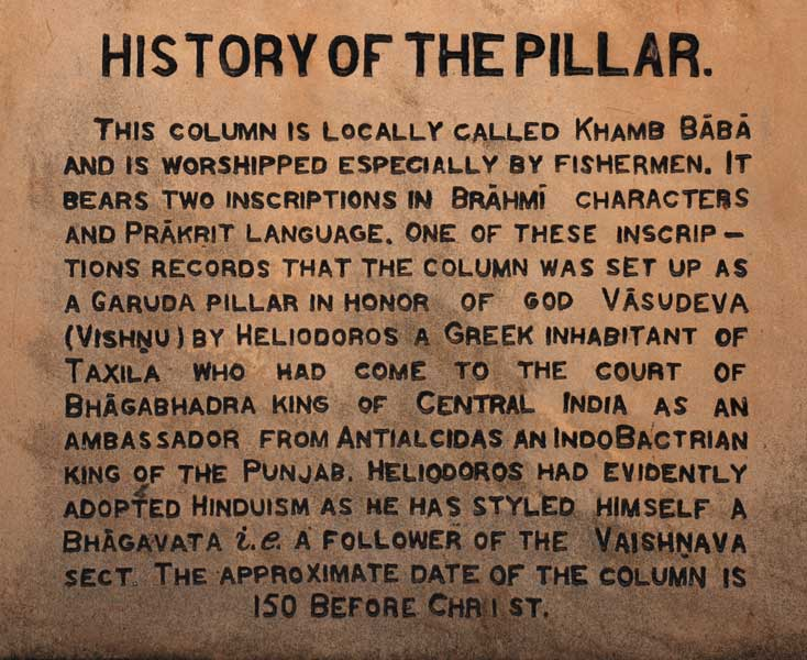 Archeological Survey of India's plaque near Heliodorus Pillar